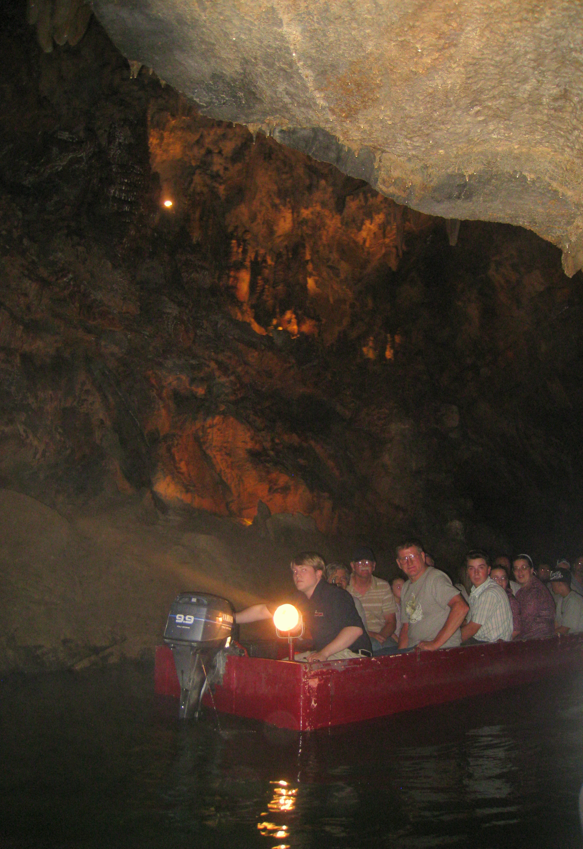 Penn's Cave, Centre Hall, Pennsylvania, USA.